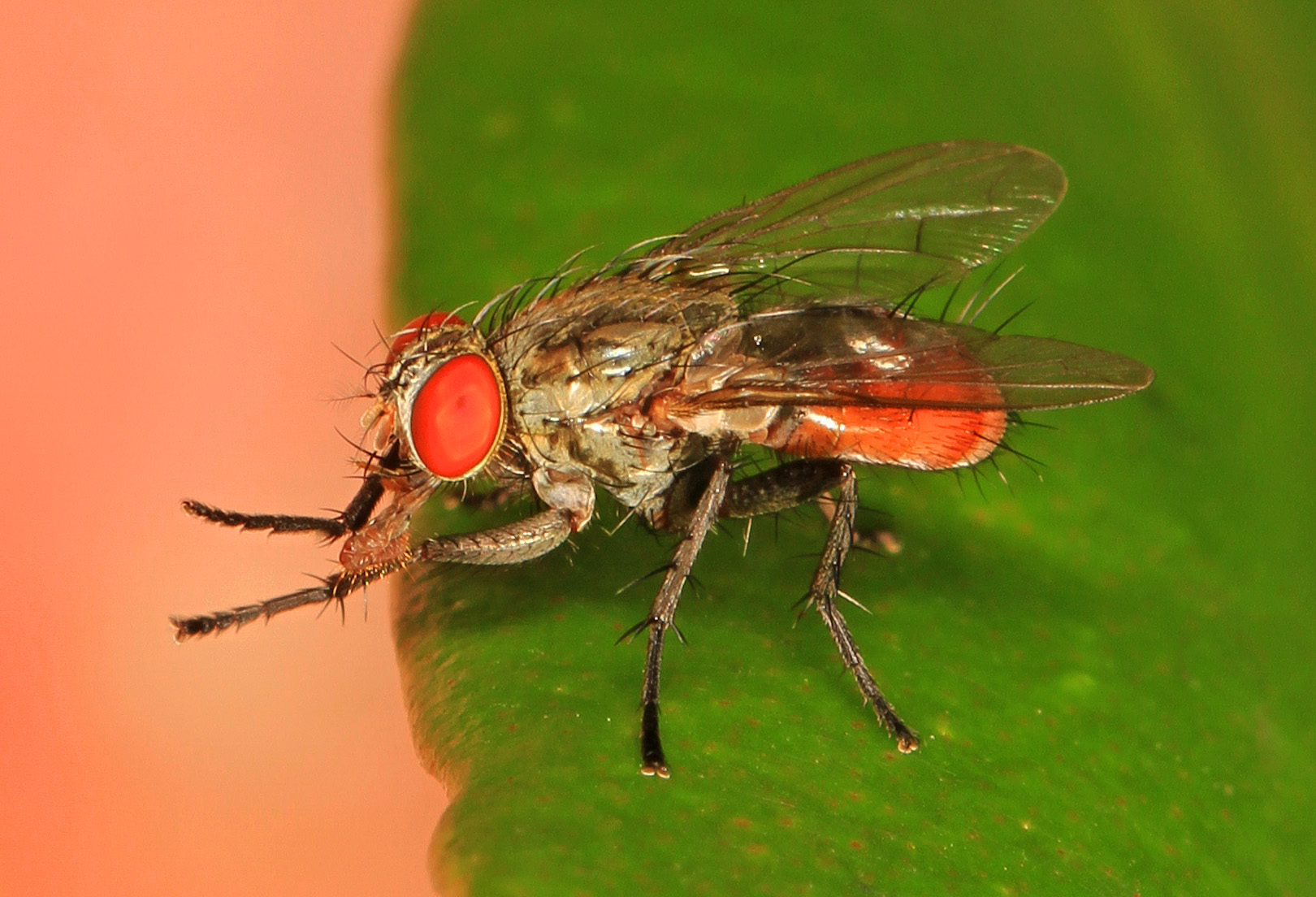 Flesh fly - Lepidodexia species, Long Pine Key, Everglades National Park, Homestead, Florida. I was initially a little bummed when I got off the plane in Florida and it was raining hard on my parade. However, the first insect shot I took was a first of this genus for Bugguide. That went a long way toward cheering me up. HFDF